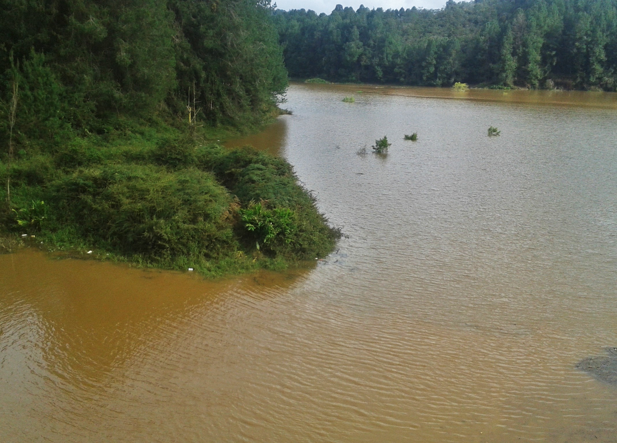 Santa Rosa´s shore at the Lake Riogrande II on the village of Orobajo-Riogrande